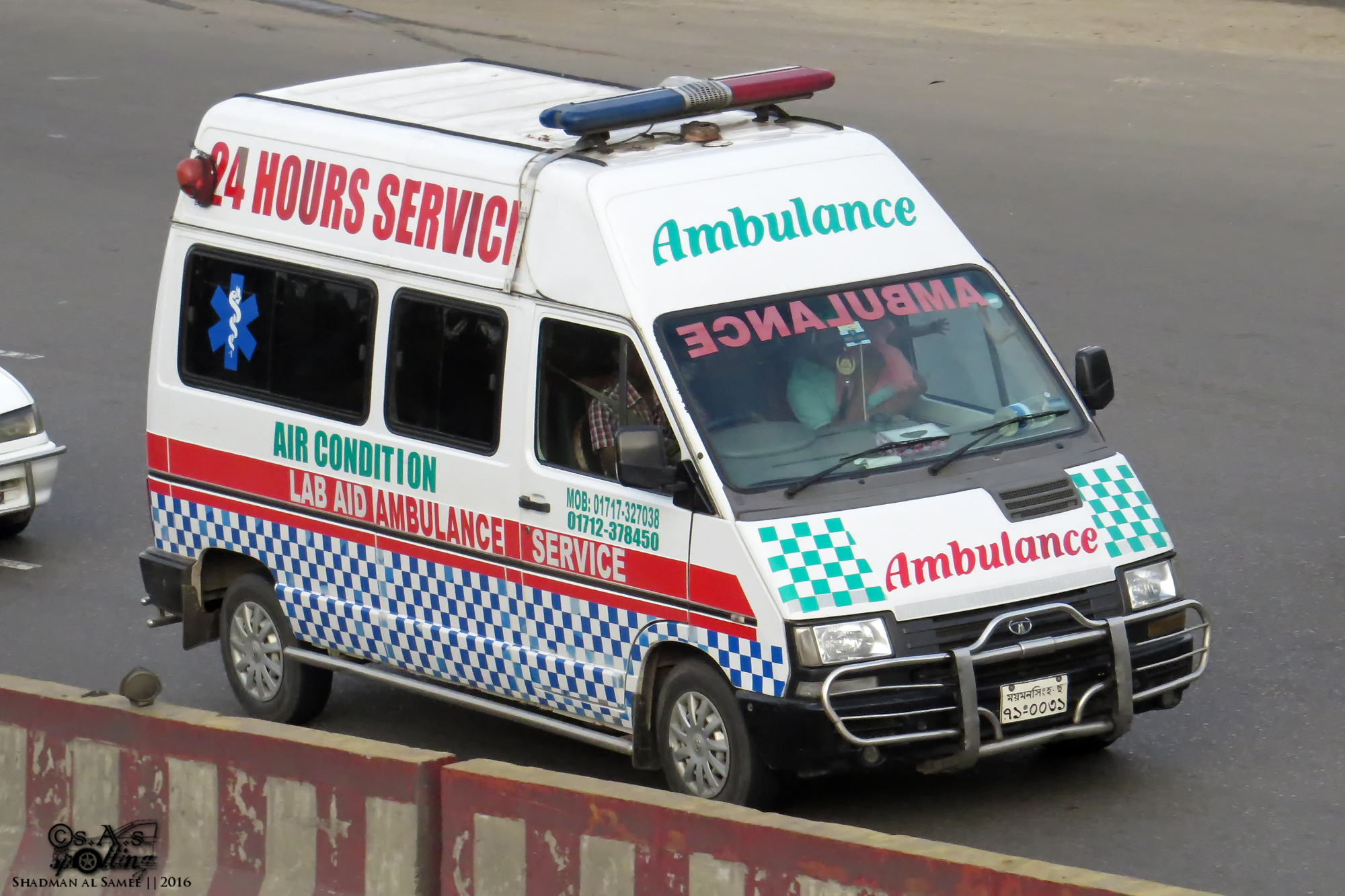 Airport Rd 2016: The type is fairly rare in Dhaka.